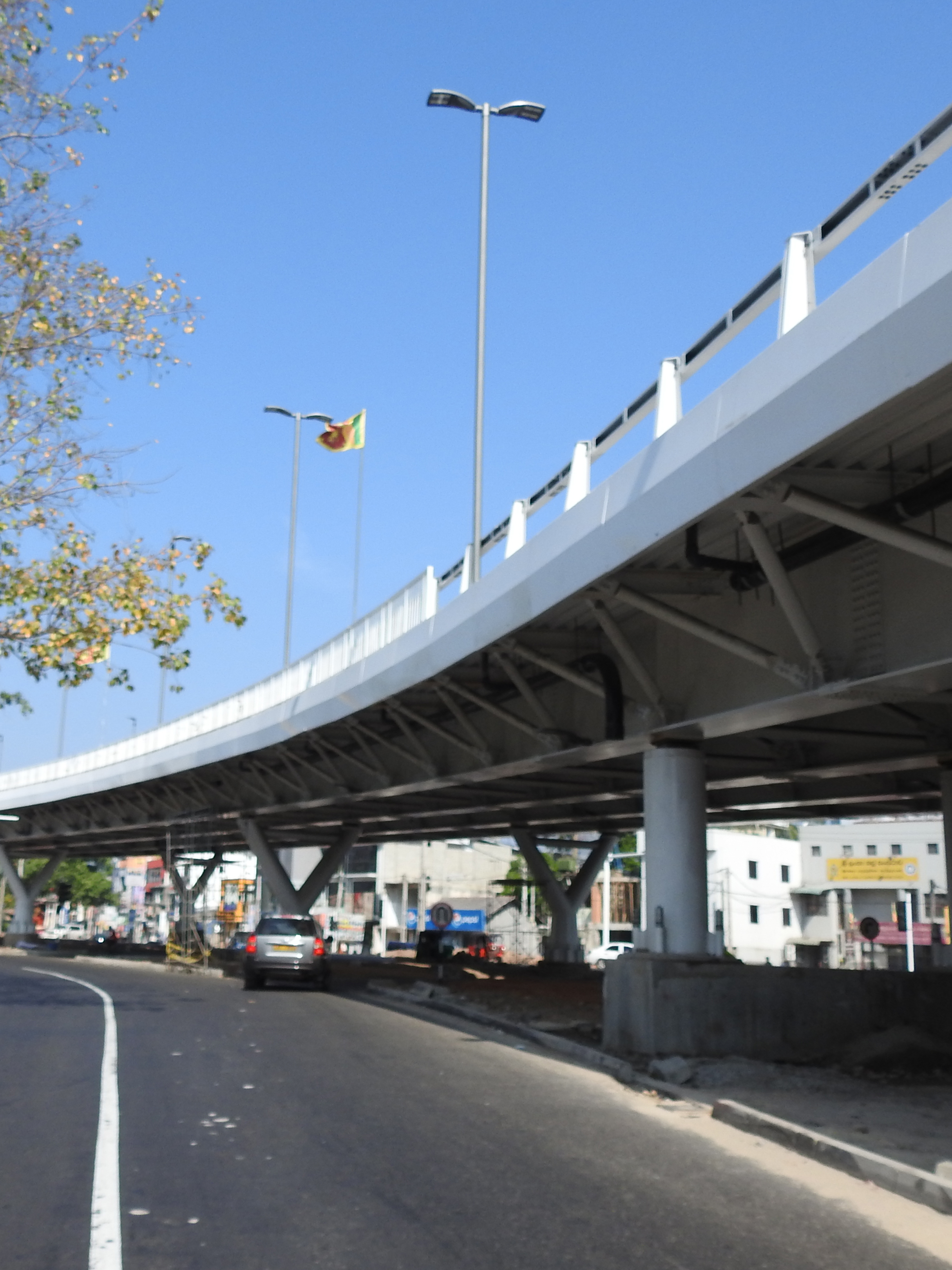 Rajagiriya flyover photographed during the independence day of Sri Lanka in 2018.